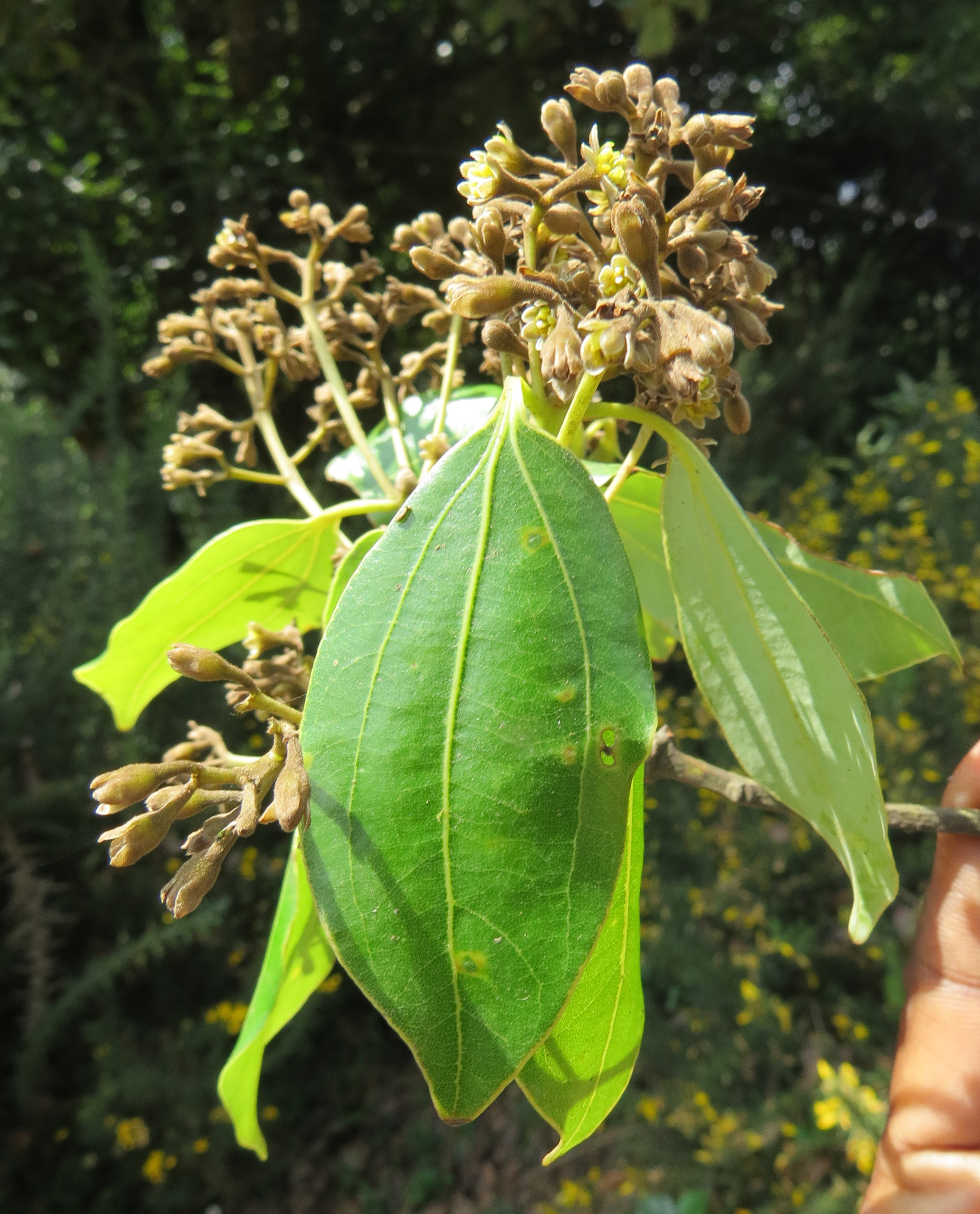 Cinnamomum wightii